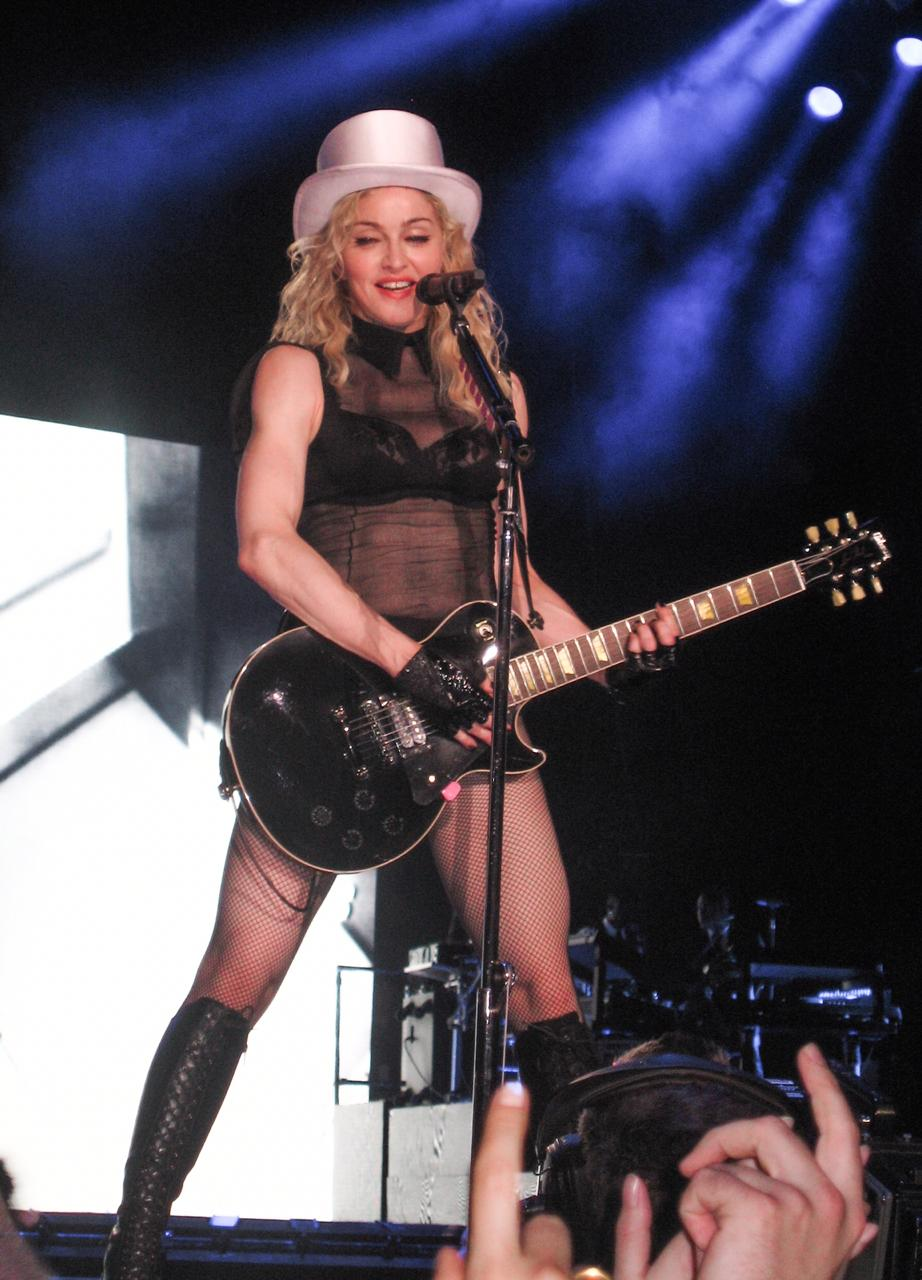 Human Nature